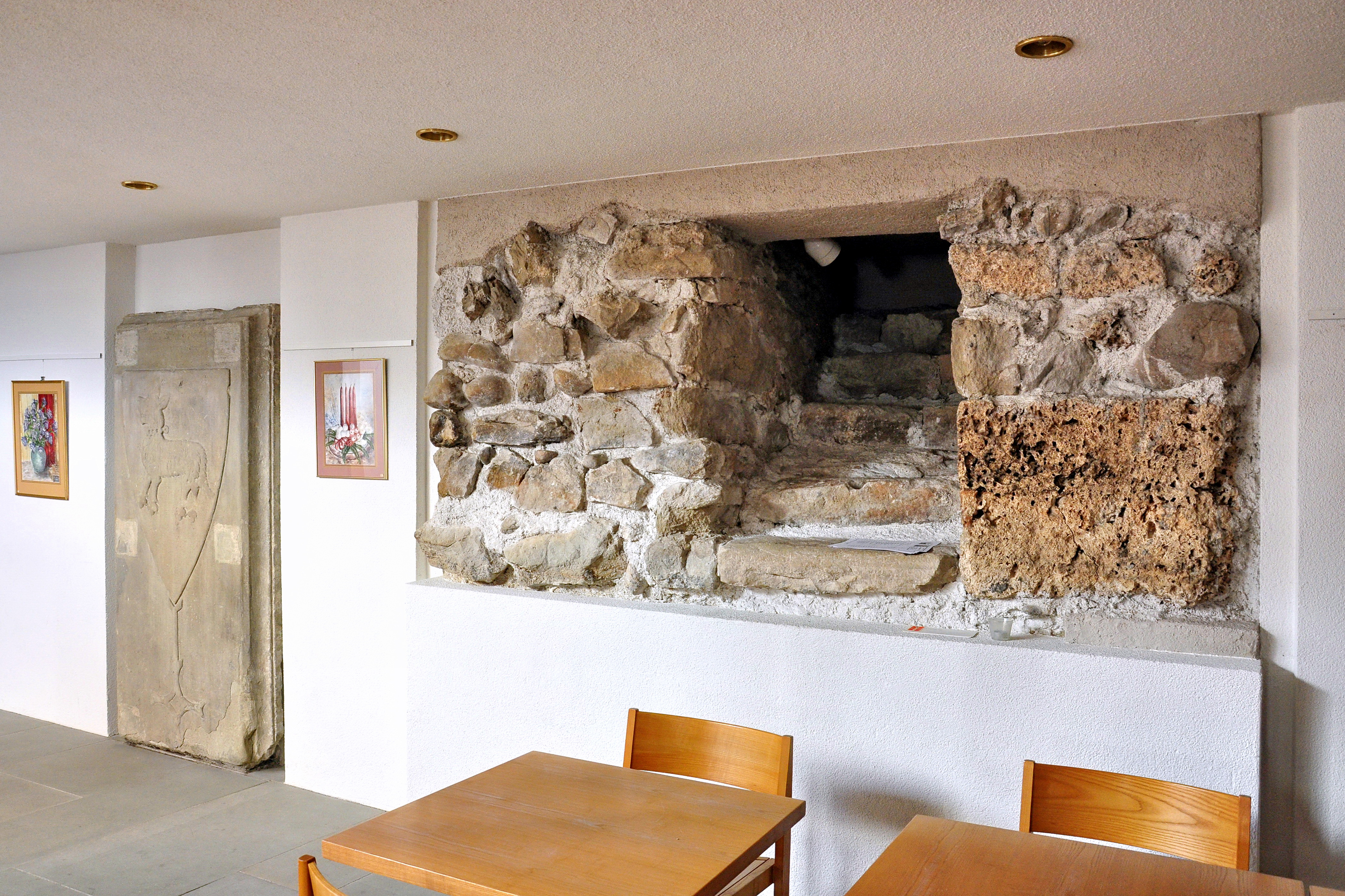 Rüti (Switzerland) : Former Rüti Abbey, remains of the so-called Toggenburgergruft (Burial vault of the Counts of Toggenburg) in the Protestant church.